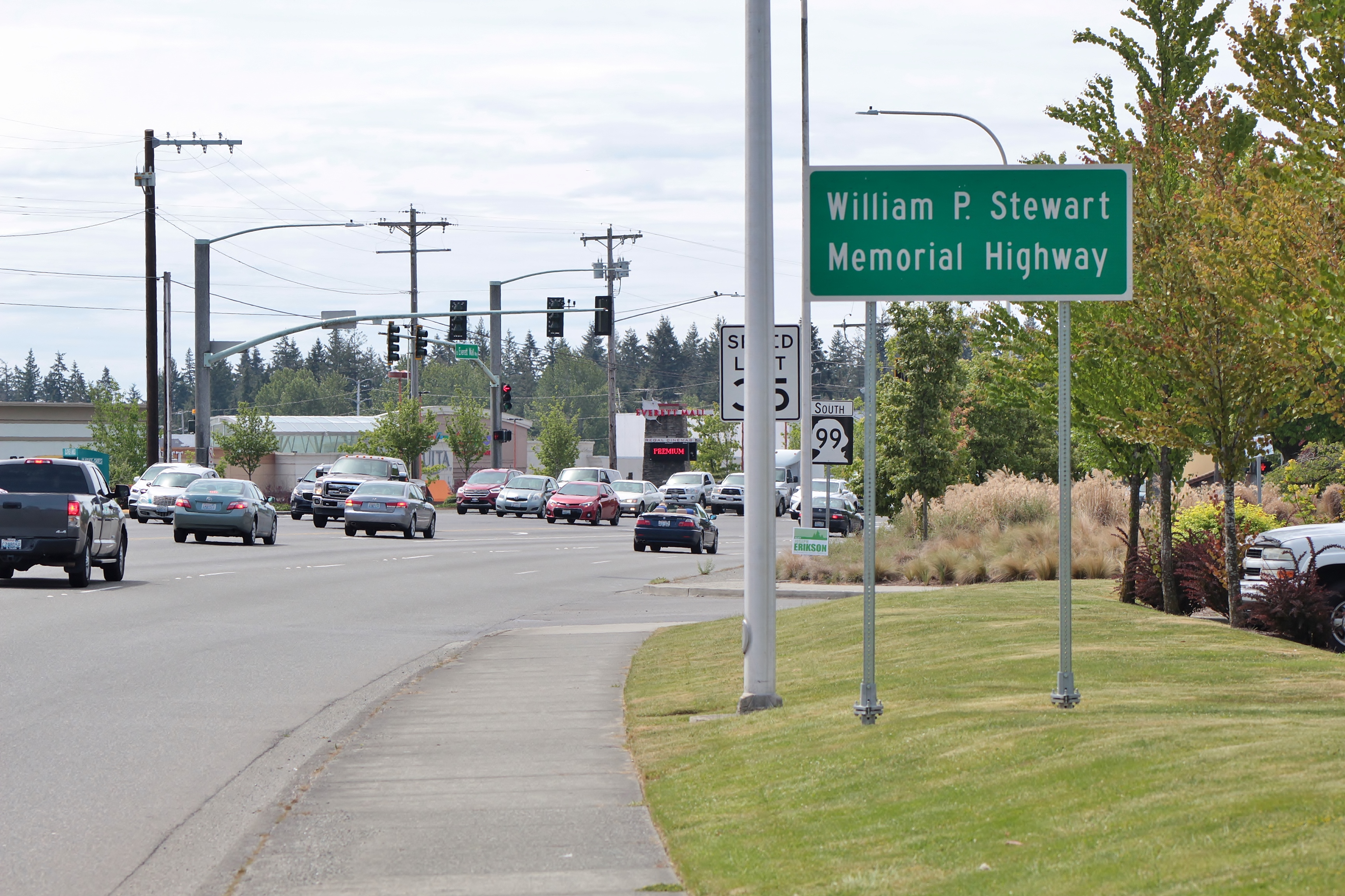 A sign with the official designation of Washington State Route 99, the William P. Stewart Memorial Highway, on Everett Mall Way in southern Everett, Washington.